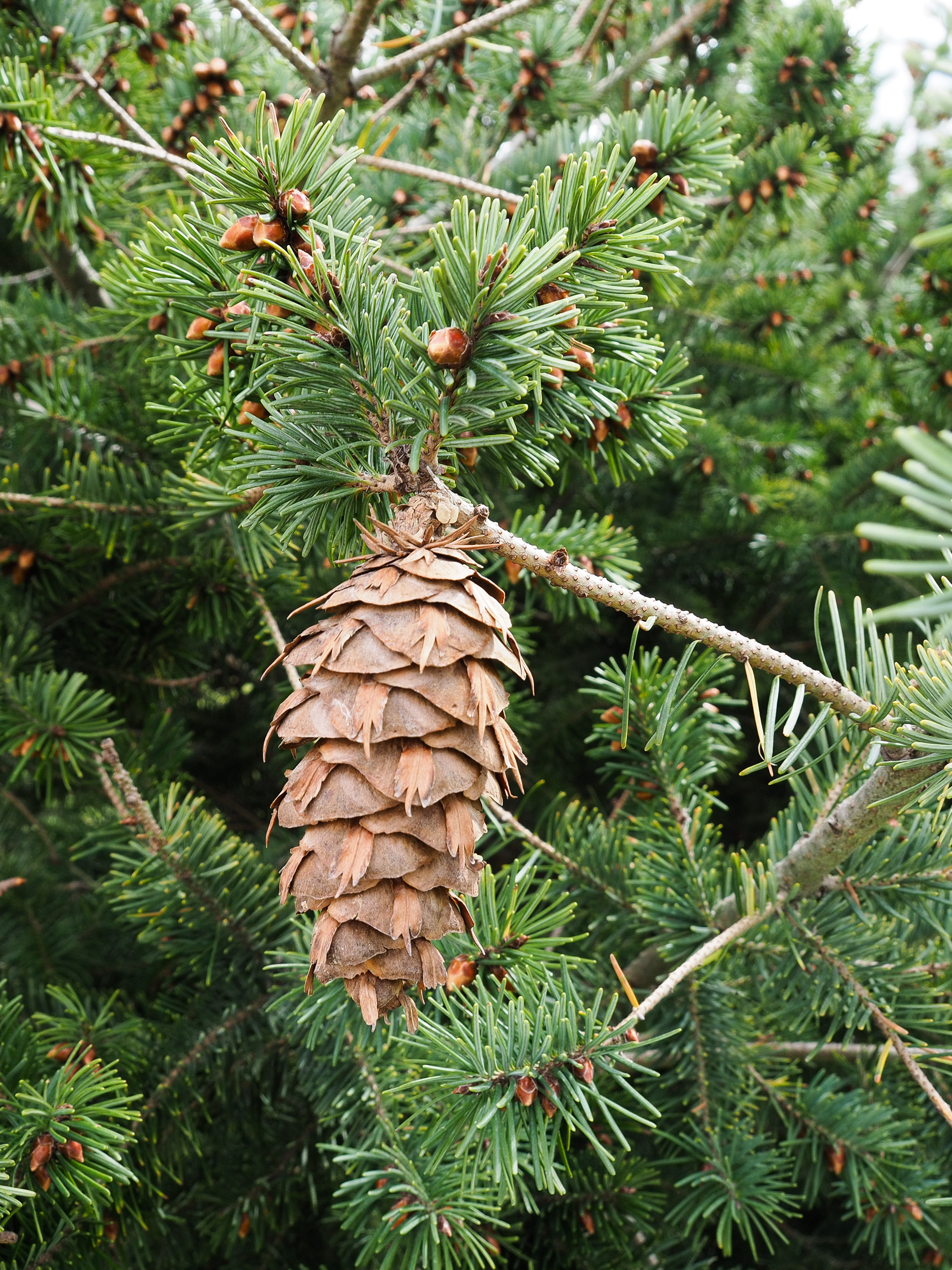 Douglas-fir female cone, showing that it is pendulous and clearly visible long tridentine (three-pointed) bract that protrudes above each scale.